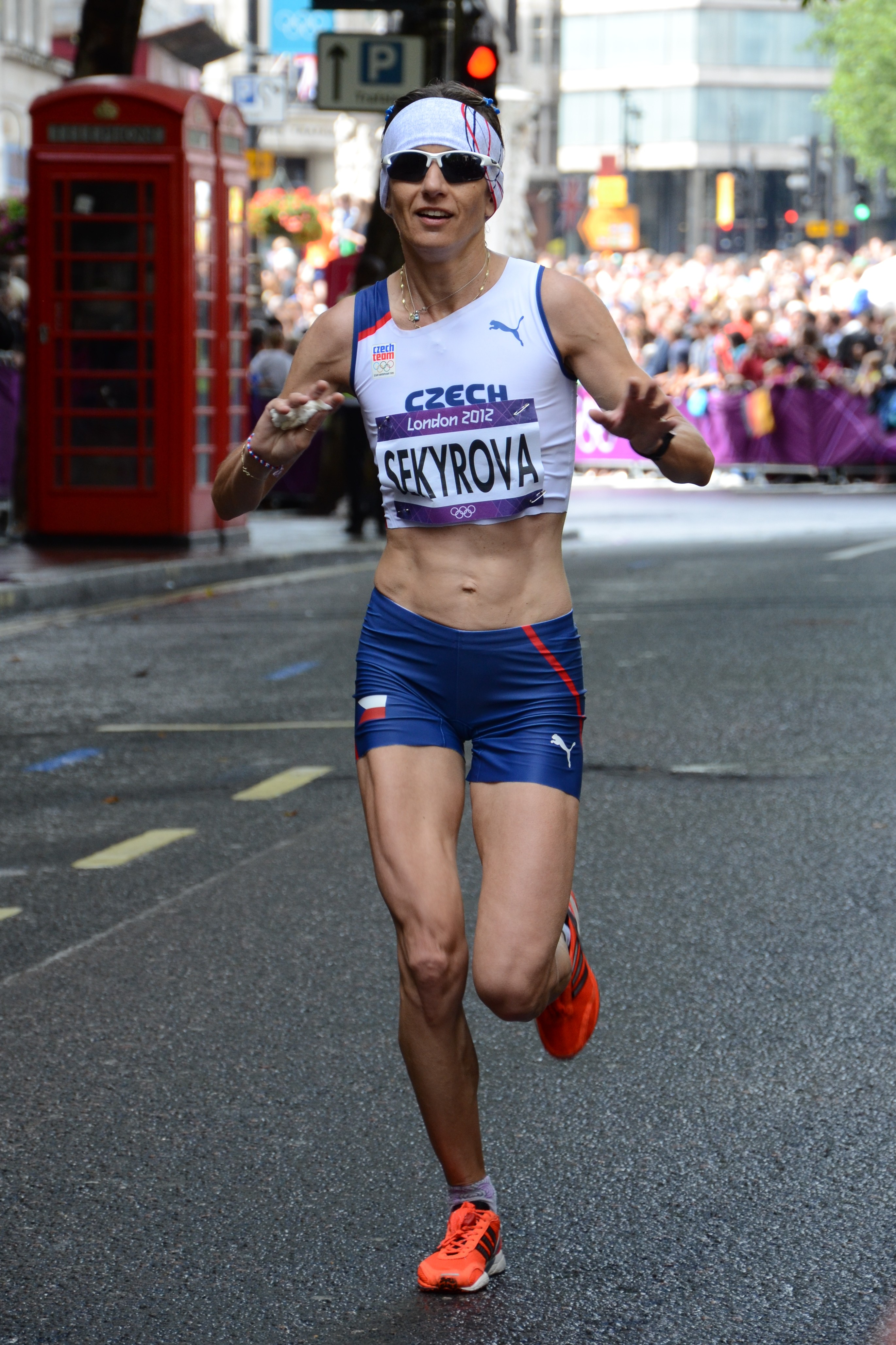 Ivana Sekyrová (Czech Republic) in the marathon (w) at the Olympic Games 2012